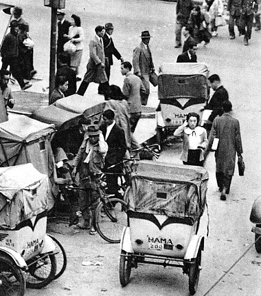 Cycle rickshaws in Japan circa 1949